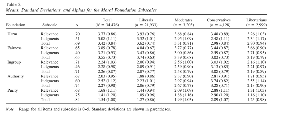 Chart outlining the results of the final trial of the Moral Foundations Questionnaire with comparisons between different political groups